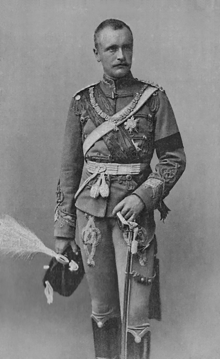 Prince Frederick Augustus around 1889